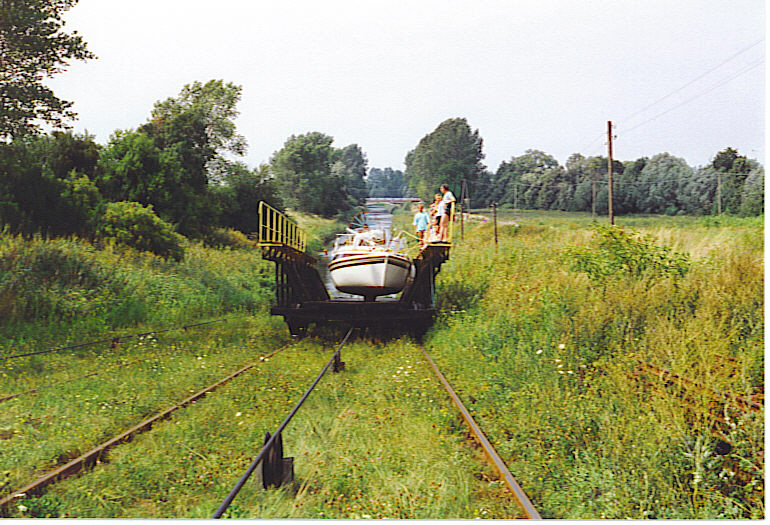 Boat Lift on the Elblag Canal